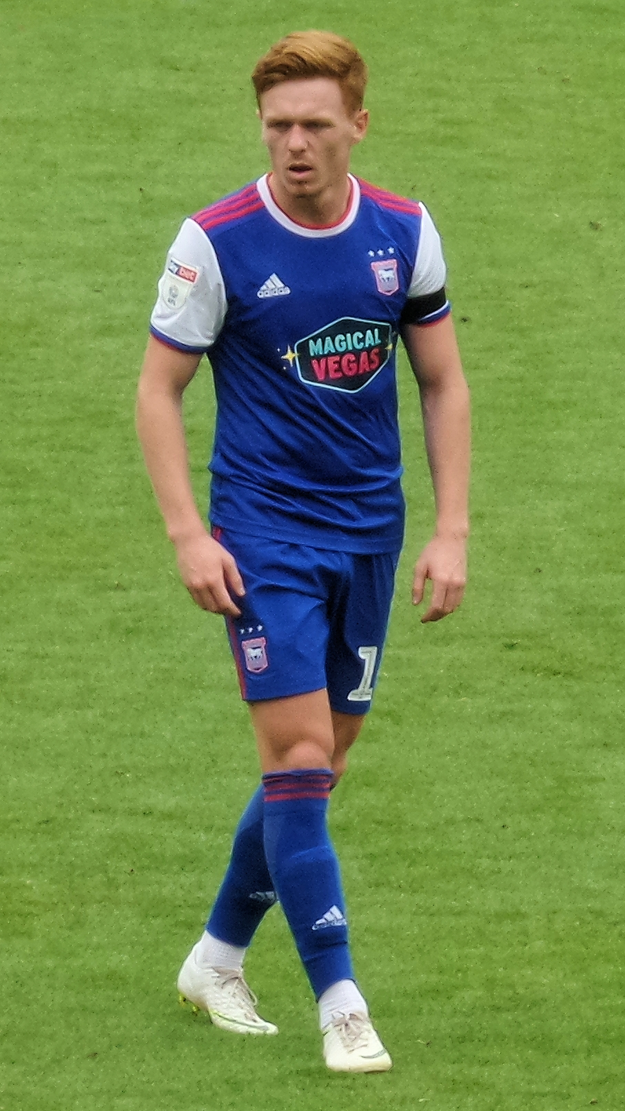 Jon Nolan on his Ipswich Town debut against Rotherham United on 11 August 2018